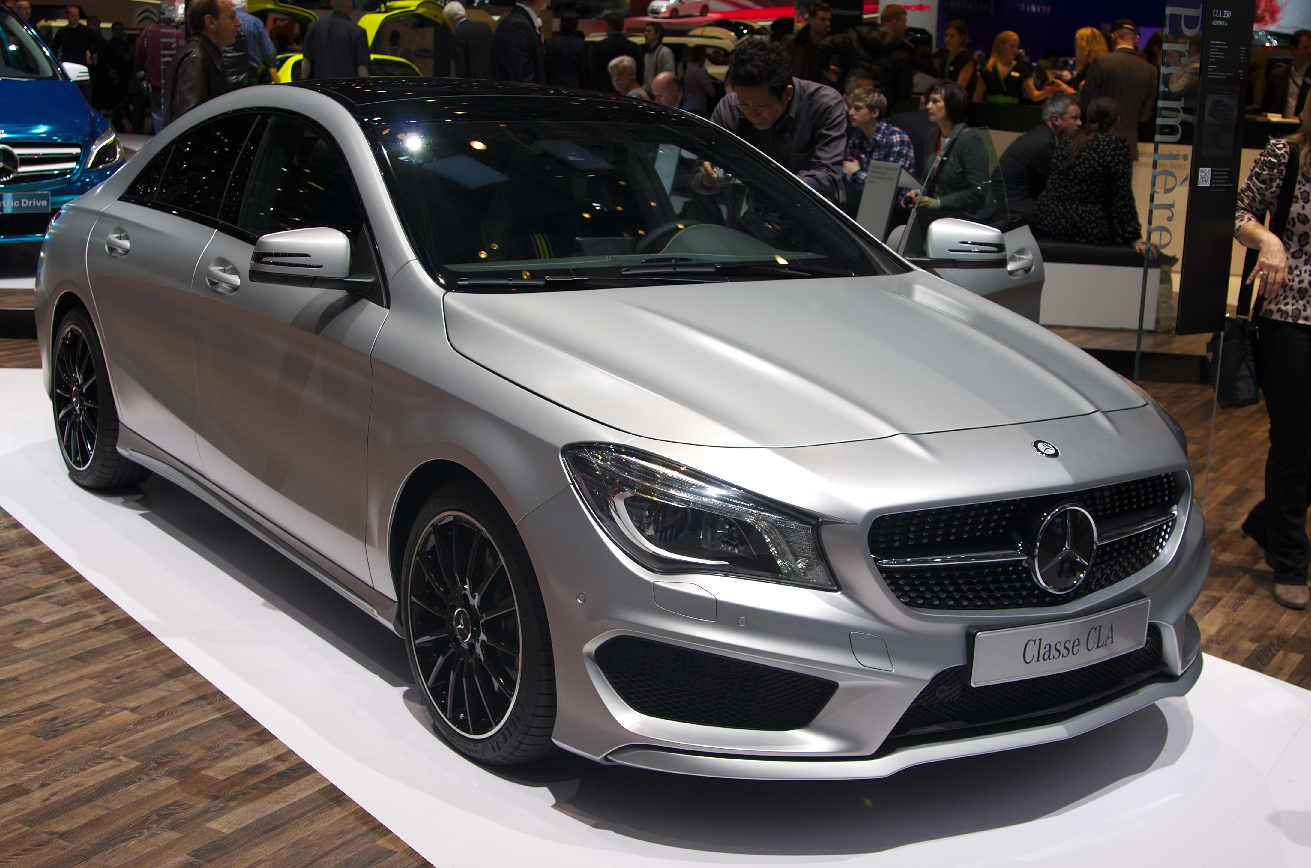 Geneva MotorShow 2013 - Mercedes Classe CLA grey